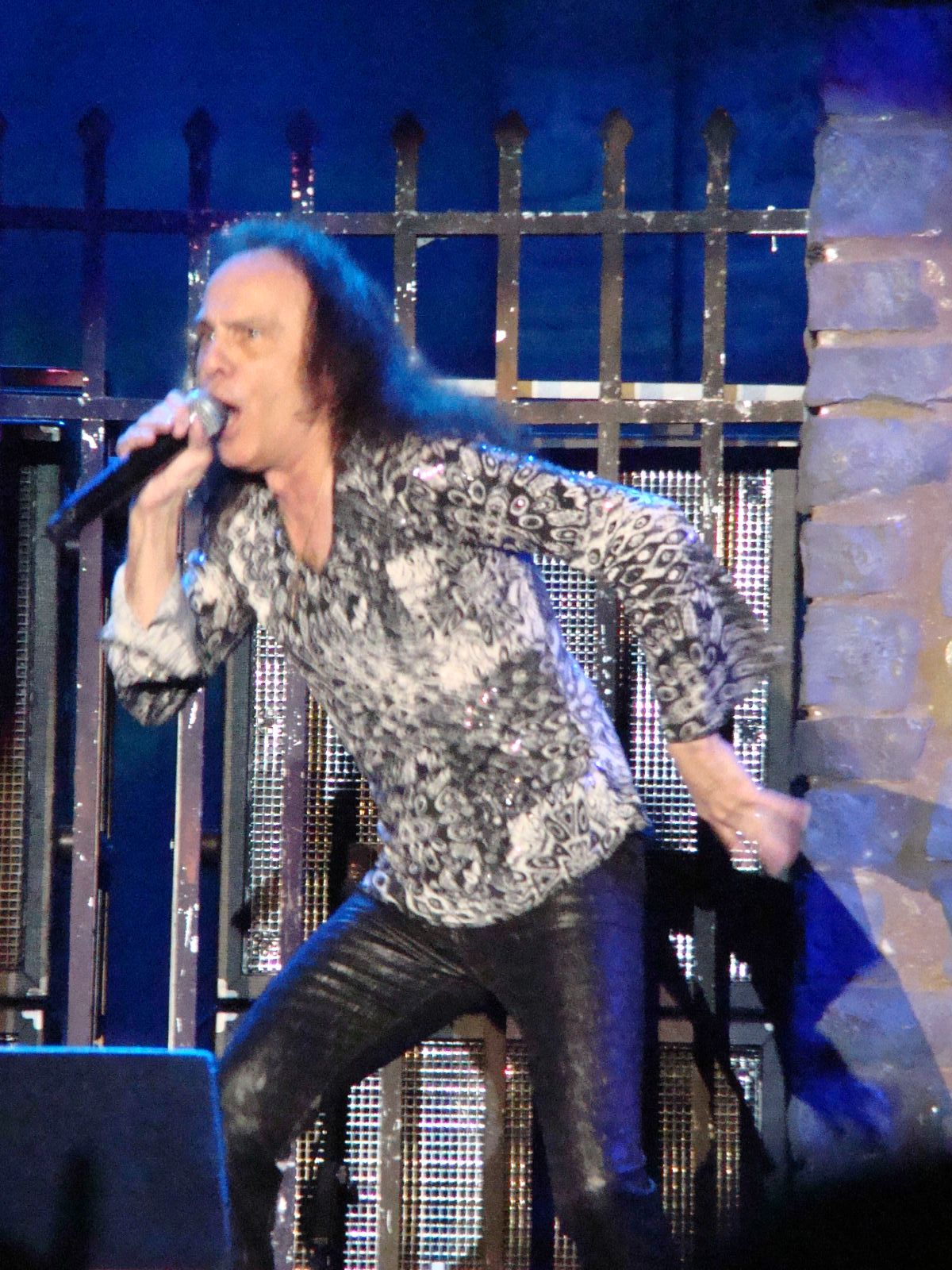 Ronnie James Dio performing with Heaven and Hell.